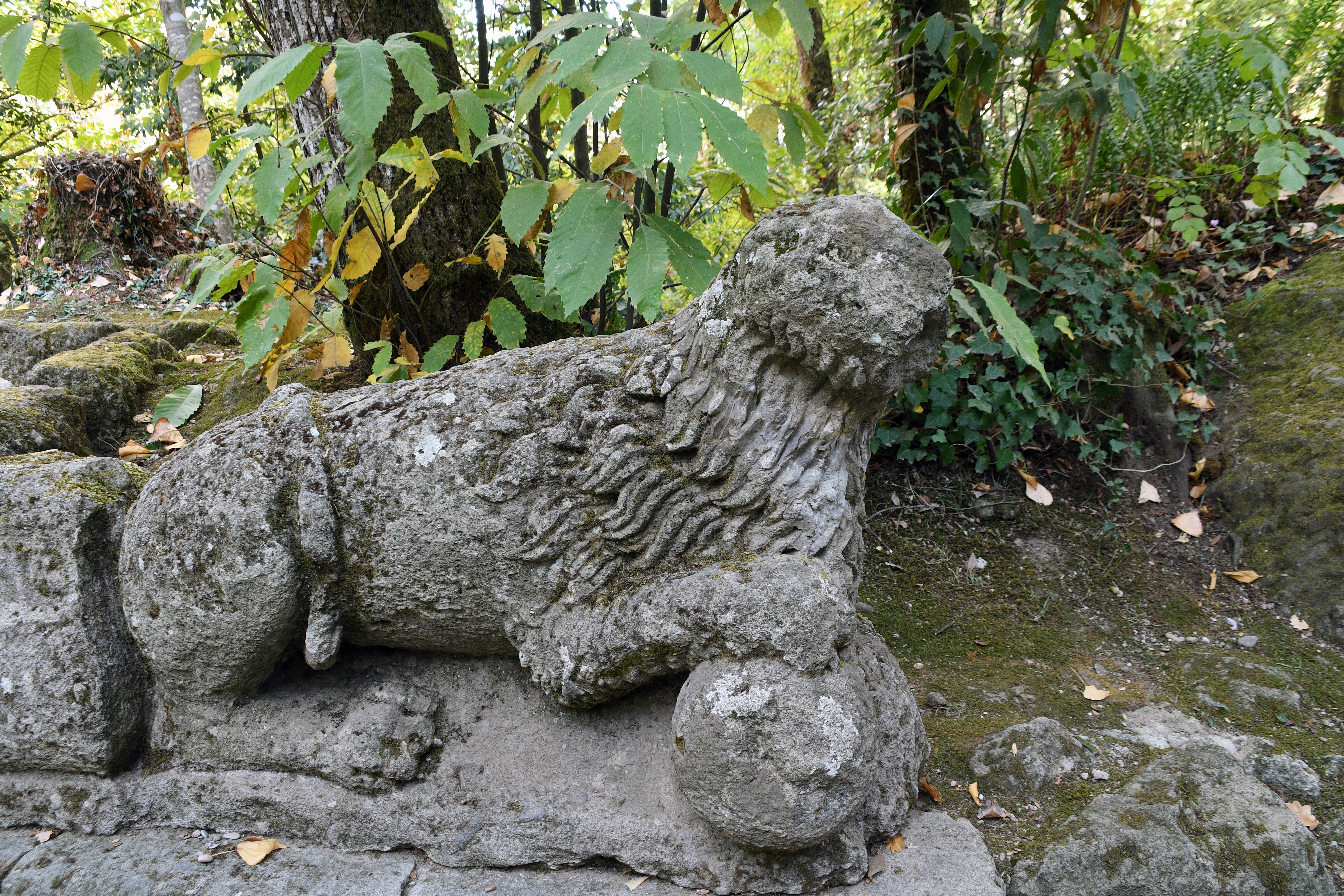 Lion in Parco dei mostri (Bomarzo)